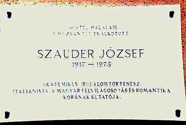 József Szauder commemorative plaque in Budapest District I, Fő Street No 37